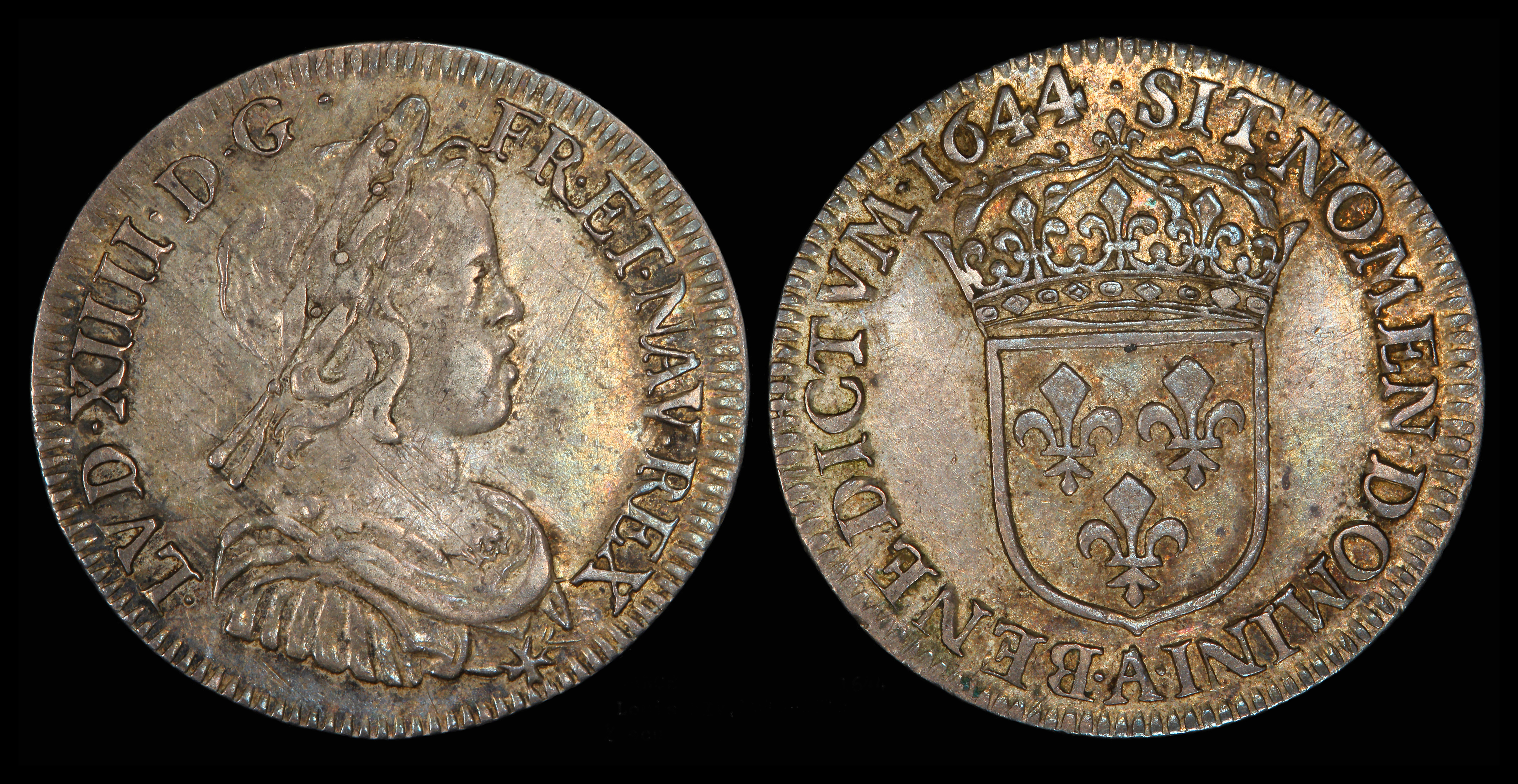 France, Quarter écu (1644-A) depicting Louis XIV.